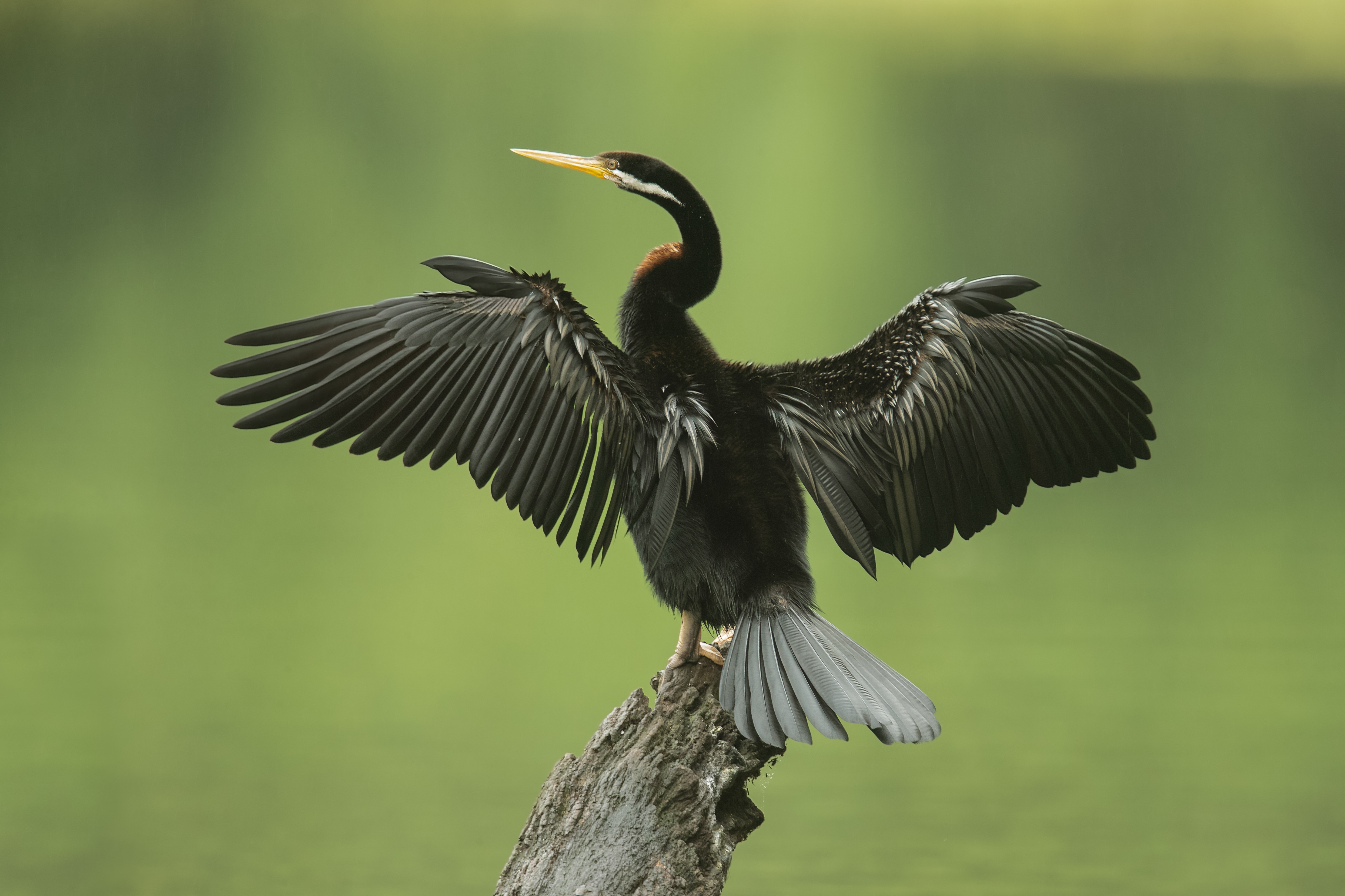 Australasian Darter, Nepean Weir, New South Wales, Australia